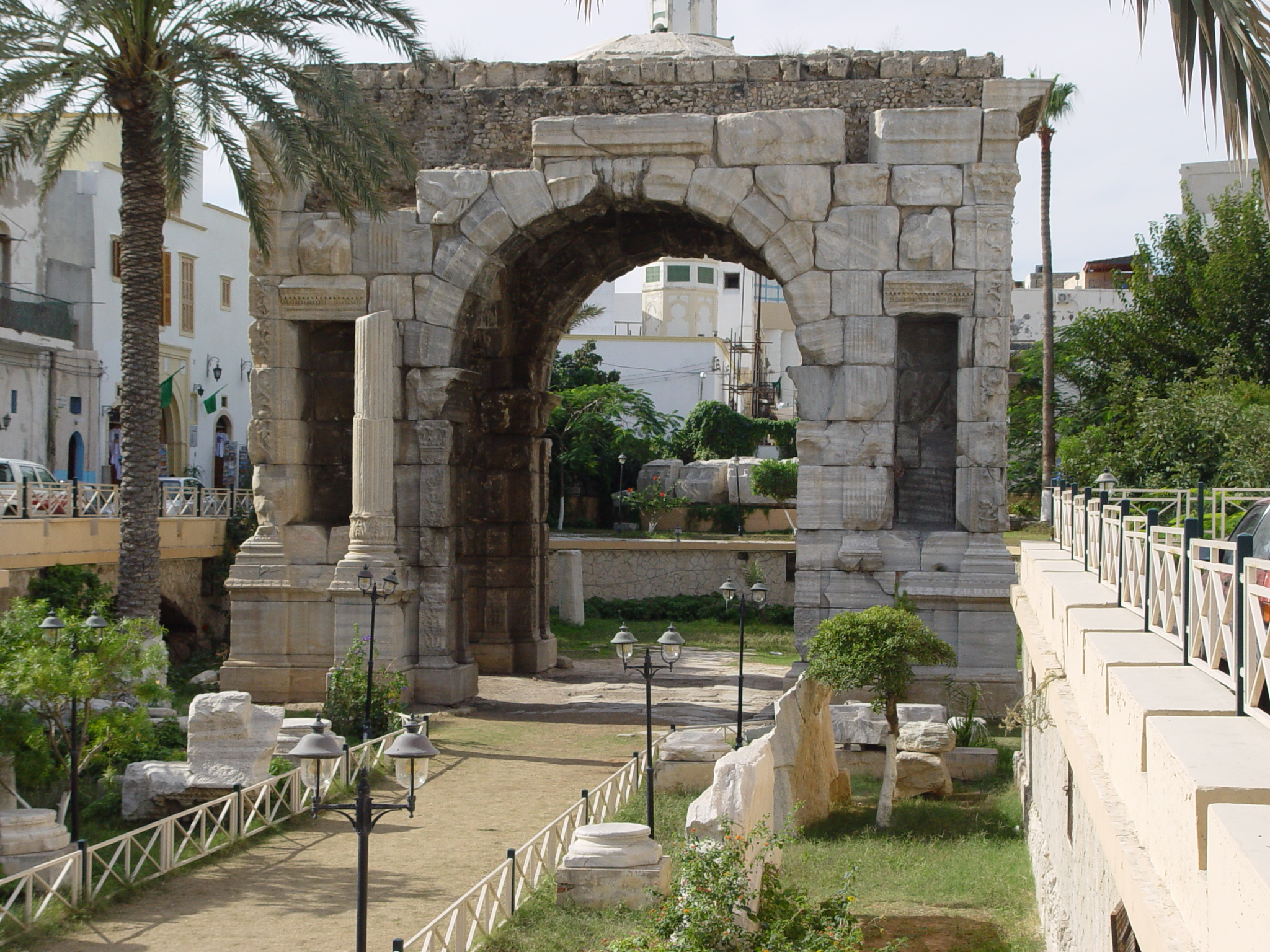 Marcus Aurelius Arch in Tripoli, Libya, built in 163 CE.